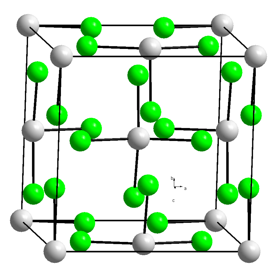 Crystal structure of uranium tetrachloride